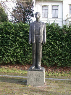 Statue in Haarlem: Man in front of firing squad. Sculptor: Mari Andriessen. Date: march 7 1949. Memorial for 15 people being shot there at random by nazis, march 7 1945 (at the end of WW II )